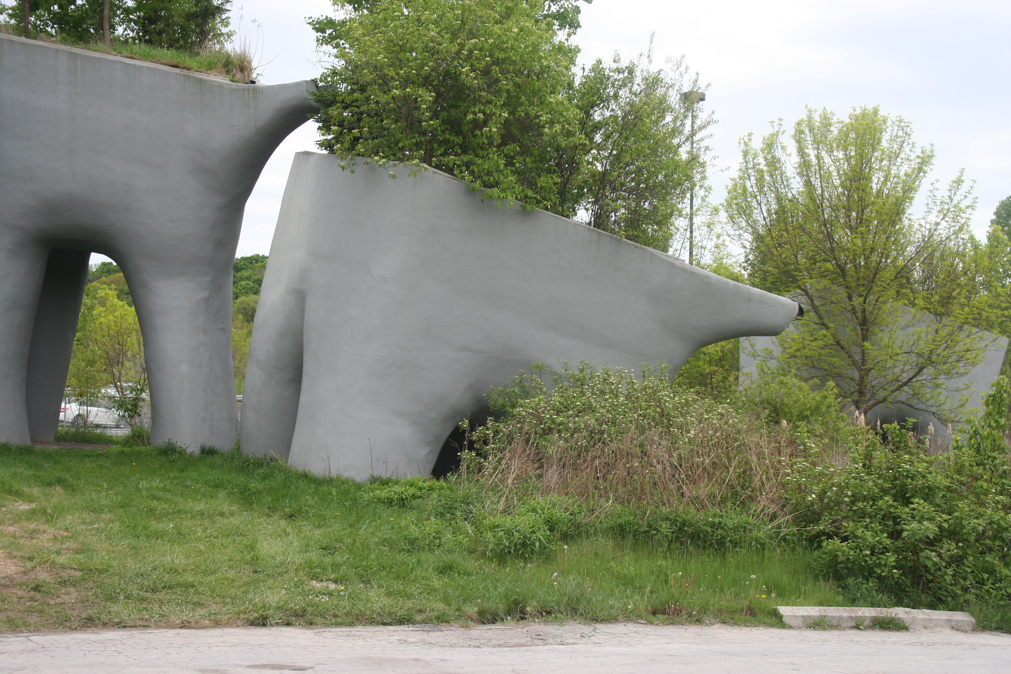 The Elevated Wetlands in Taylor Creek Park, Toronto, Ontario. Known as "the Teeth", the Elevated Wetlands are an art installation, created by an artist named Noel Harding. They were commissioned by the Canadian Plastics Industry Association and are made entirely from recycled plastics. Powered by solar panels, the devices cleanse polluted water from the Don River.